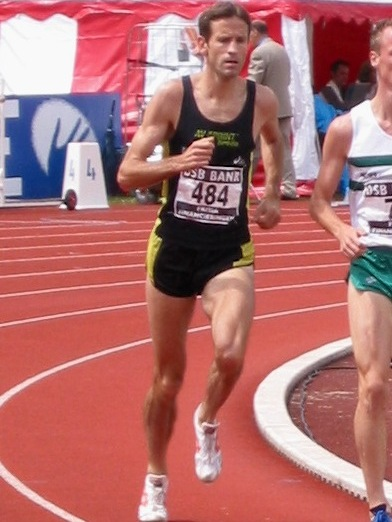 Simon Vroemen, during 3000m steeplechase Dutch Championship